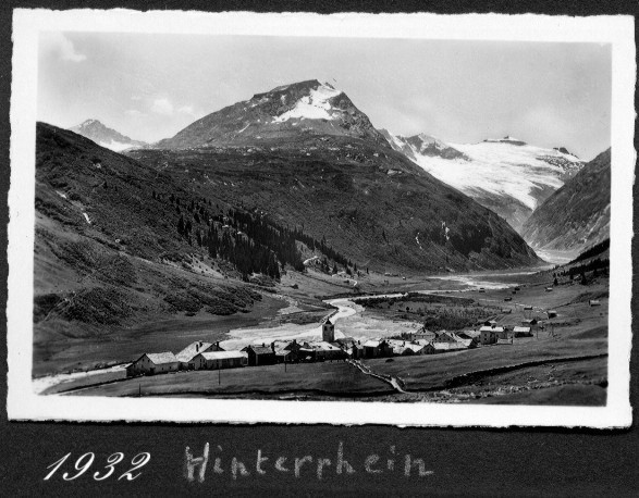 Hinterrhein village and river in Graubünden, Switzerland in 1932